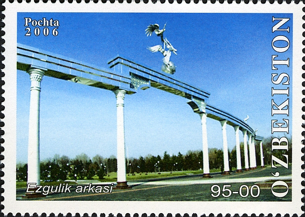 Stamps of Uzbekistan, 2006